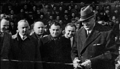 Sukru Saracoglu opening the Sukru Saracoglu stadium in 1934